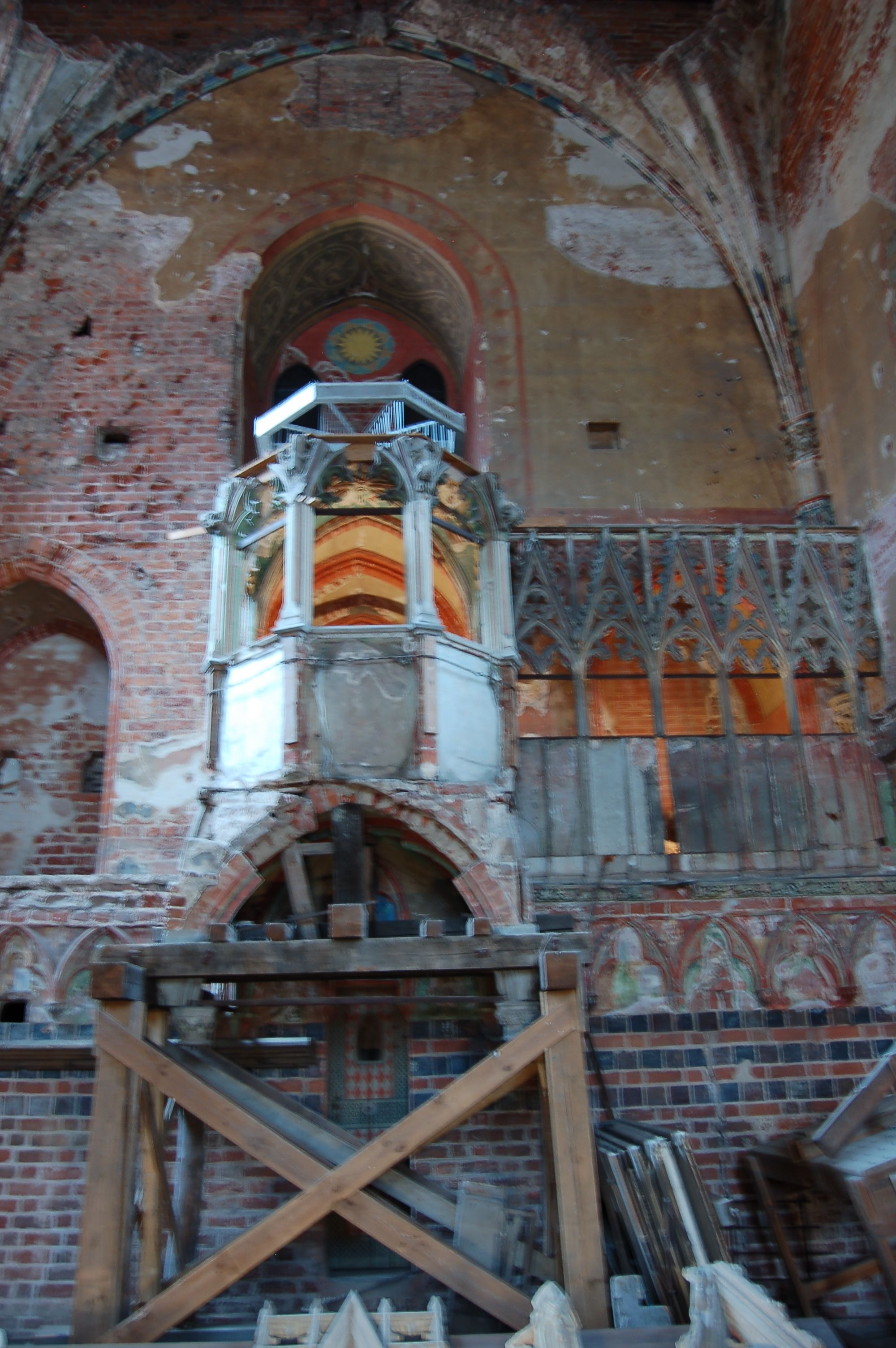 Altar in the not yet restaured Marienkirche in the Ordensburg Marienburg, Malbork (Poland)